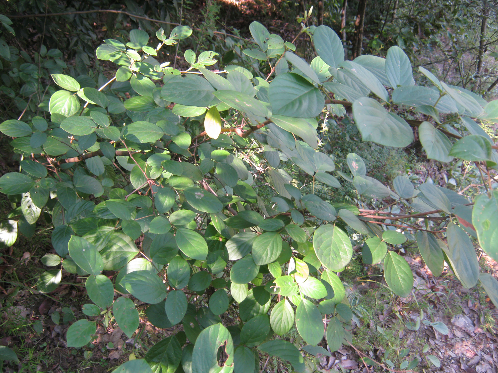 Flemingia strobilifera found in the jungle of Panchkhal.